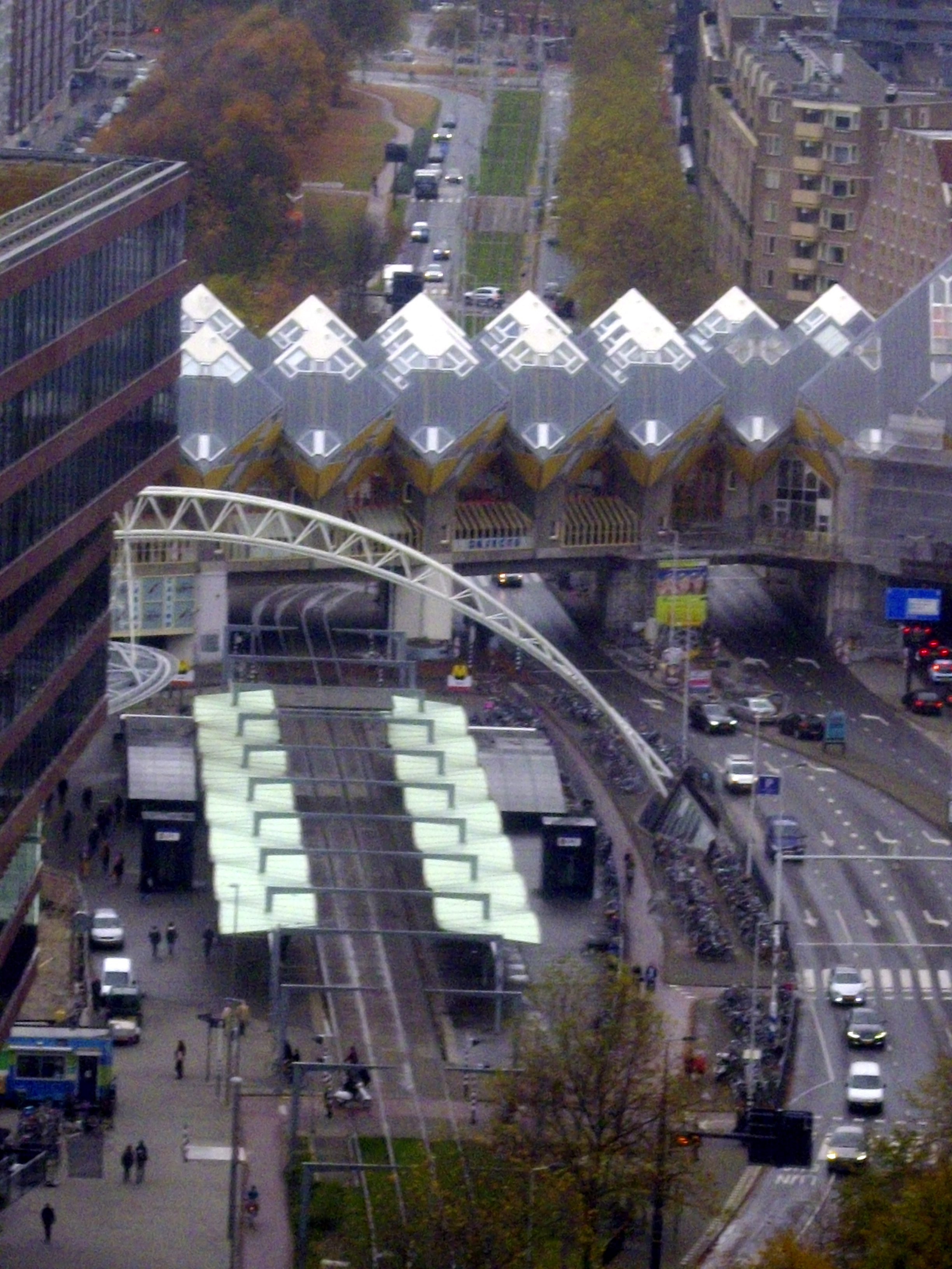 Cube-houses (kubuswoningen) and tram-train station Blaak, Rotterdam, Nov. 2015